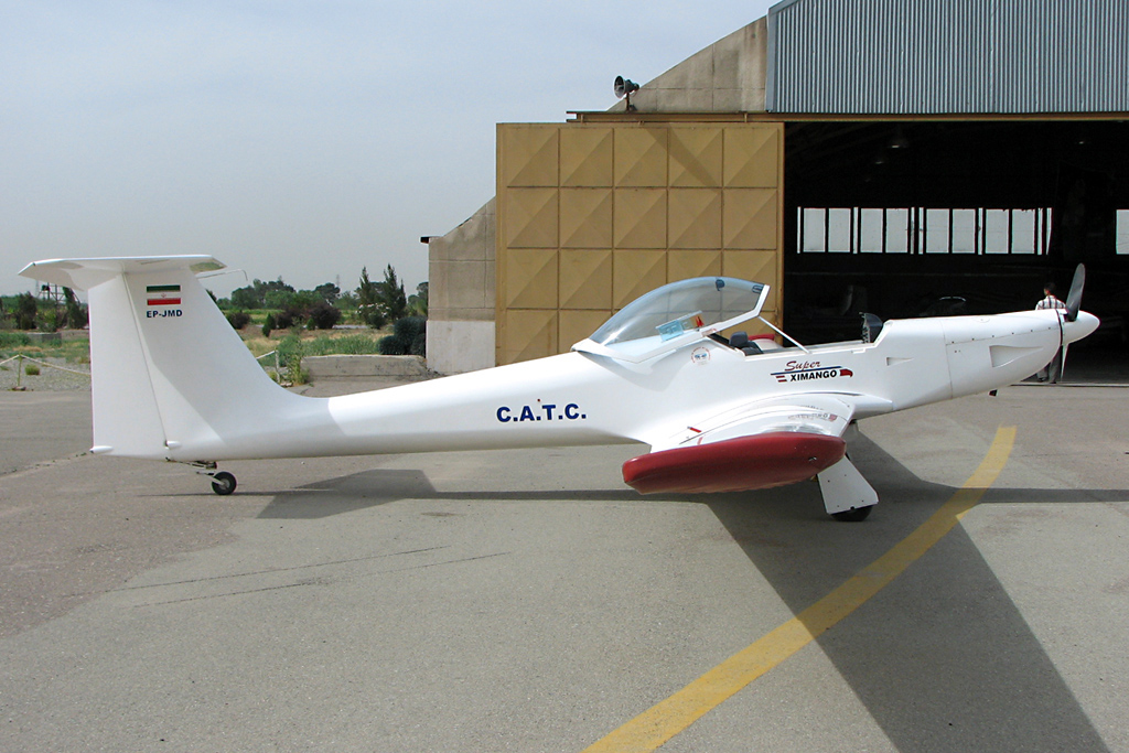 A Aeromot AMT-200 Super Ximango in Firuzabad Aviation Center. There are 4 AMT-200 Super Ximango that are useing for training and entertainment flights at Firuzabad Airfield.